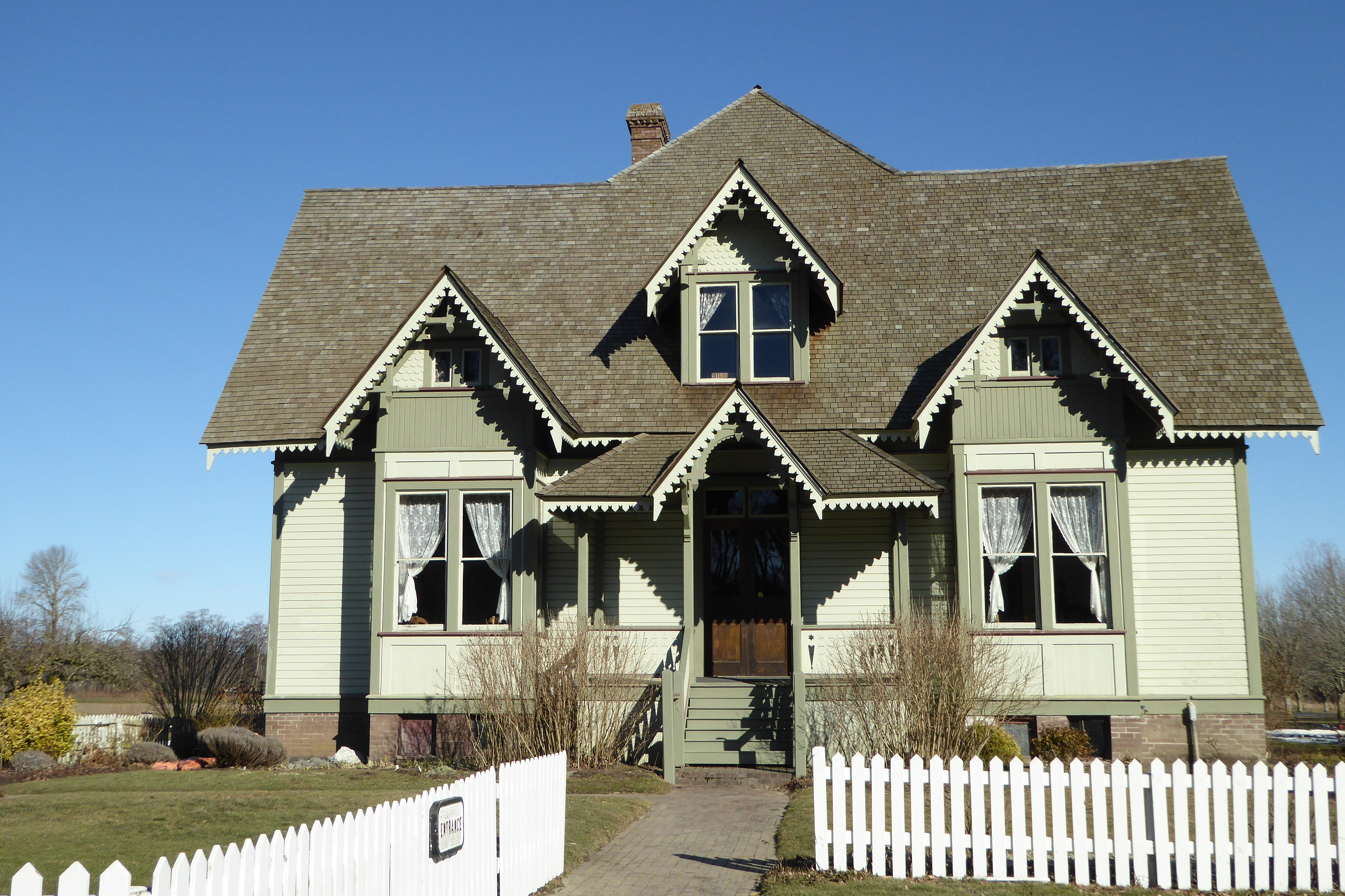 Hovander Farmhouse entrance view